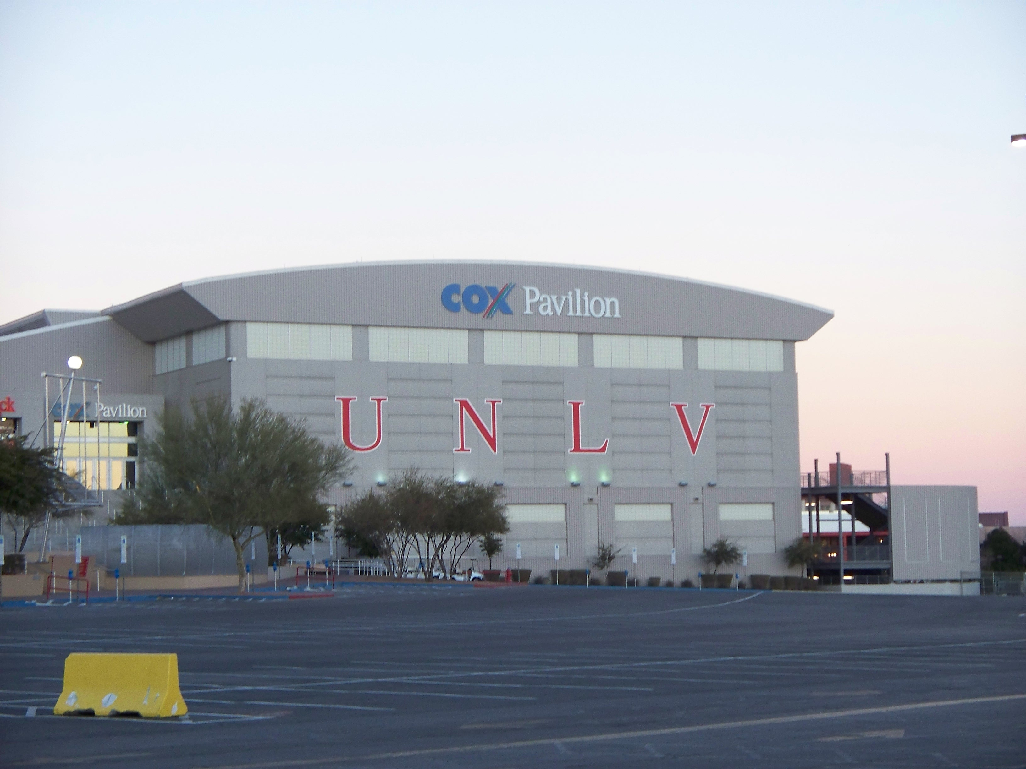 This photo is of the Cox Pavilion on the campus of the University of Nevada, Las Vegas in Las Vegas, Nevada. The arena is home to UNLV Lady Rebels basketball and volleyball. The arenas is connected to the larger Thomas & Mack Center.